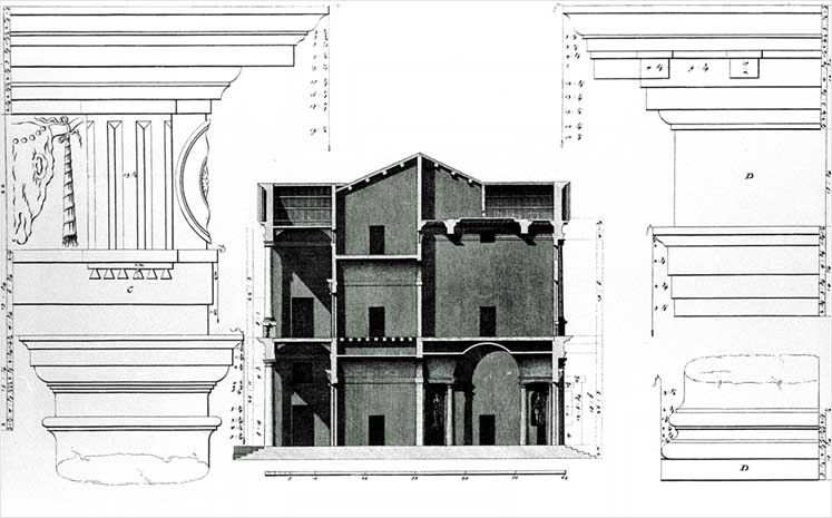 Villa Pisani in Montagnana by Andrea Palladio. Drawing by Ottavio Bertotti Scamozzi, 1778.